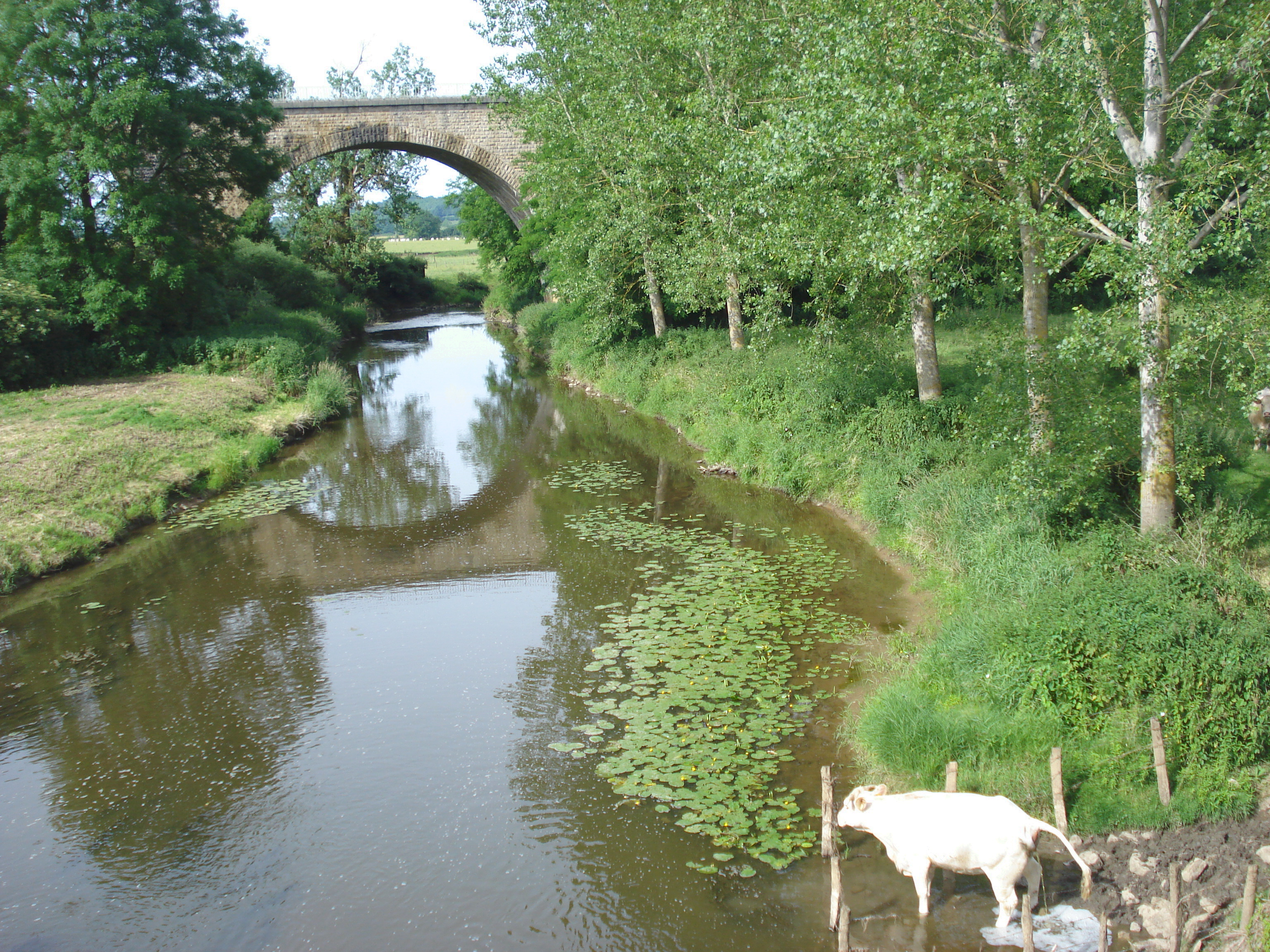 Arconce river at Lugny-lès-Charolles (Saôine-et-Loire, Fr) with railway bridge.